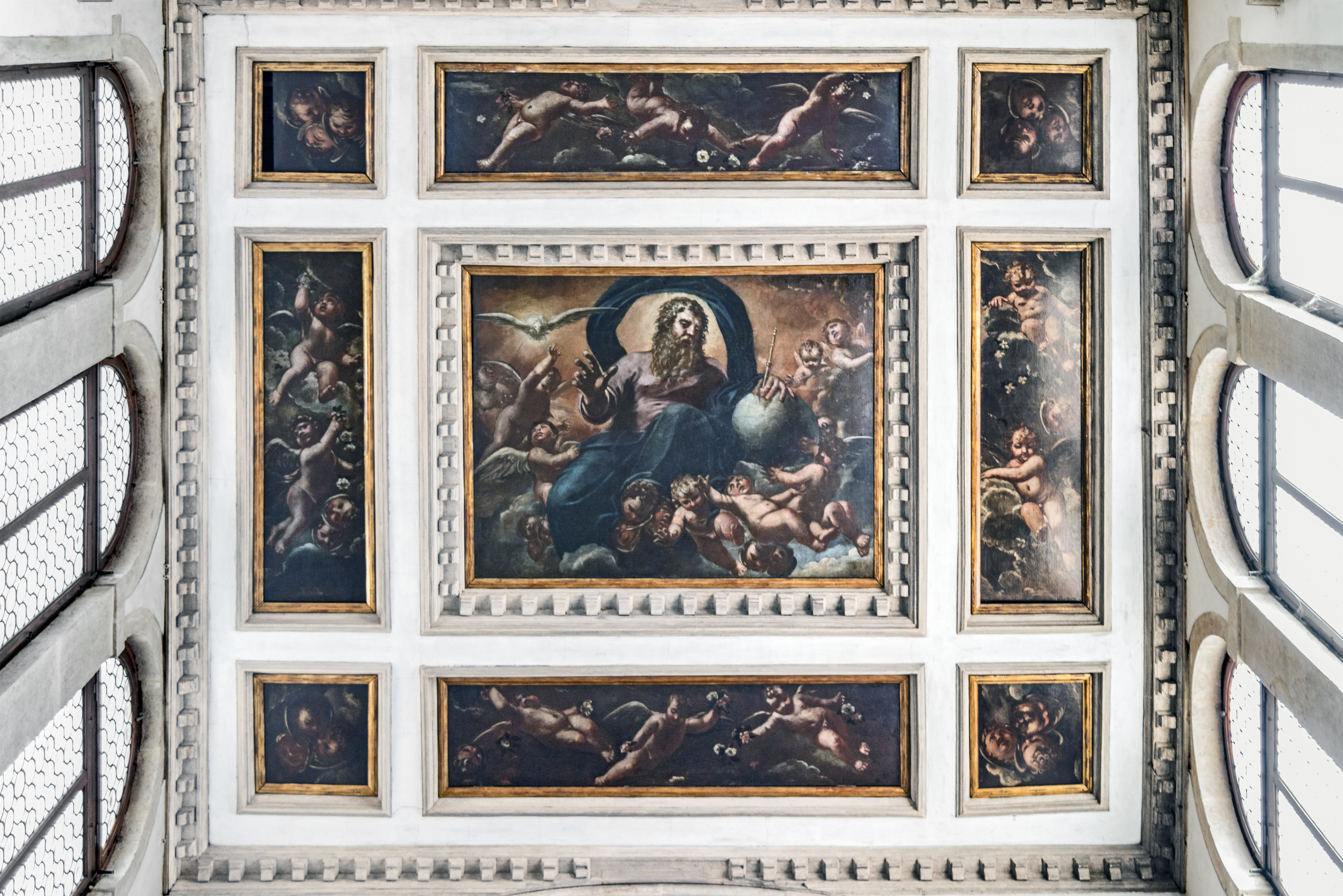 San Giovanni Crisostomo, Venice Interior - Ceiling, God the Father, fresco by Giuseppe Diamantini